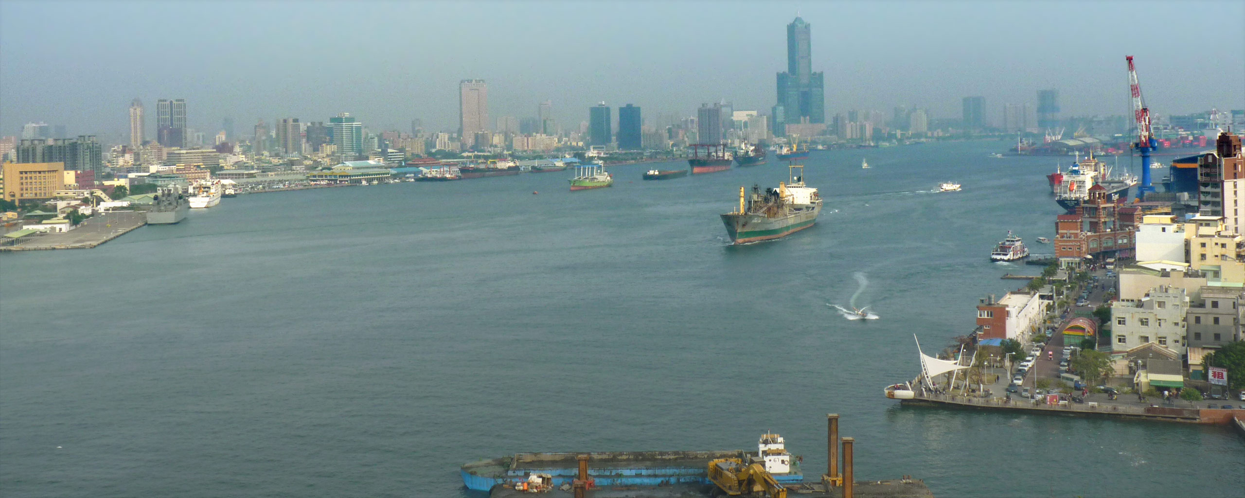 The west coast of Kaohsiung City from Cijin island lighthouse hill.